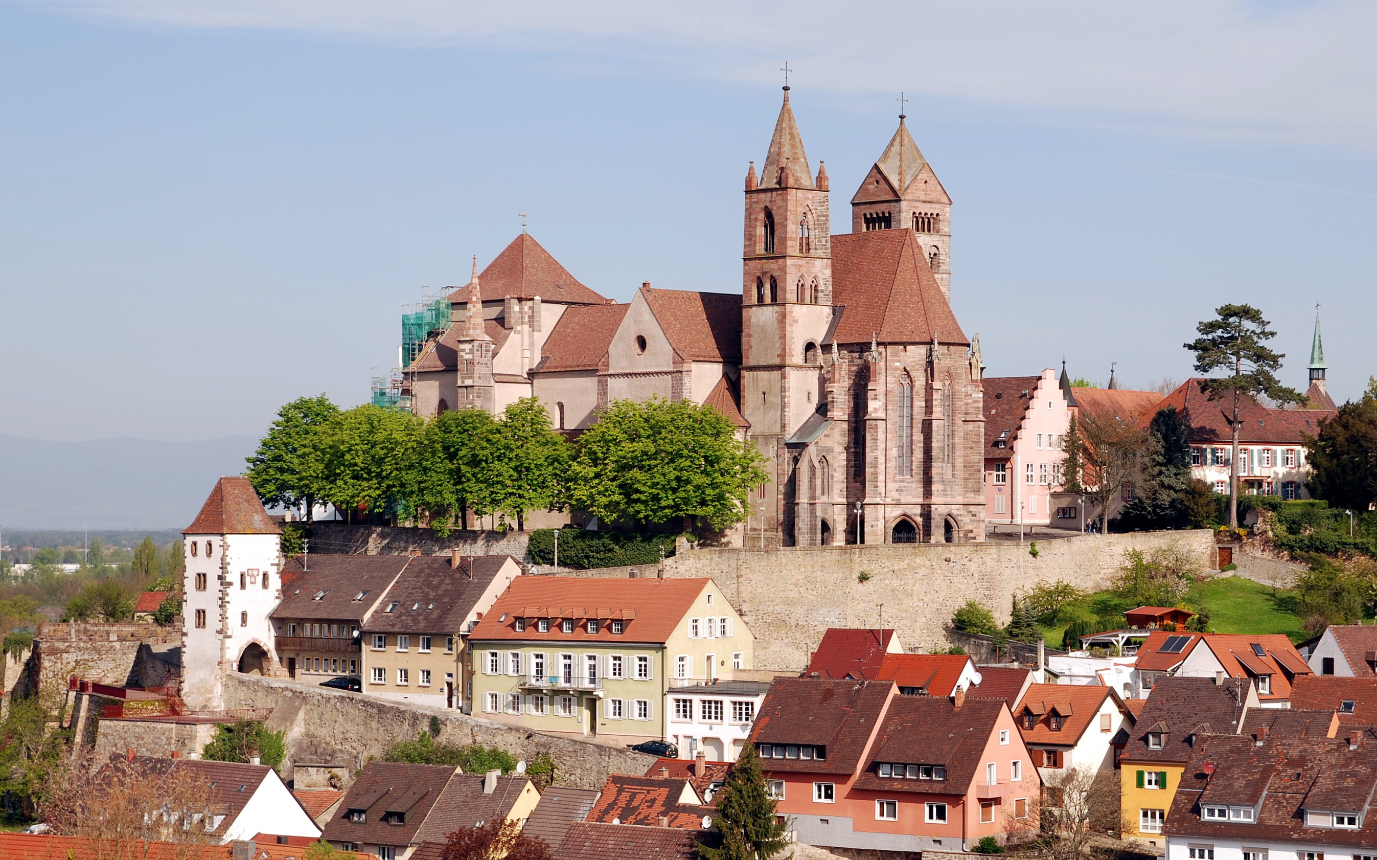 Breisach Minster. General view from Mount Eckartsberg. Breisach am Rhein, Germany.